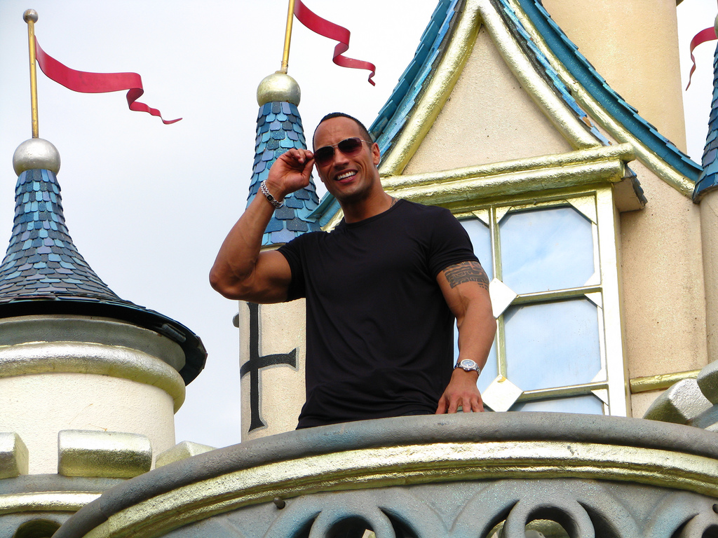 Dwayne Johnson (%u72C4%u7DAD%u838A%u905C) interview at HK Disneyland as a part of movie 'Race to Witch Mountain' (%u52C7%u95D6%u9B54%u57DF%u5C71) asian junket.